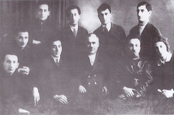 Mushfig with writer collegs